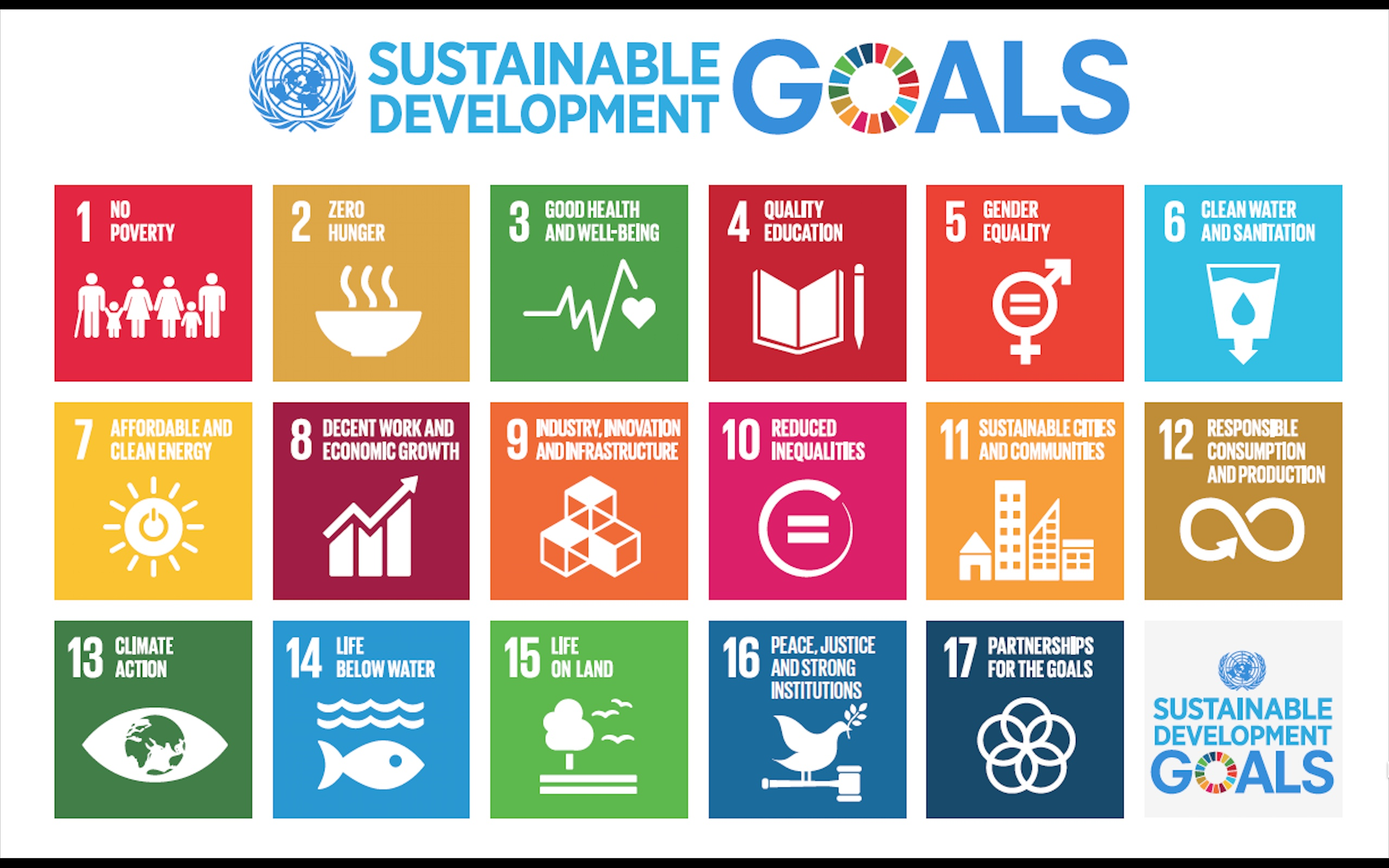 The Sustainable Development Goals, adopted on 25 September 2015 as a part of the 2030 Agenda.